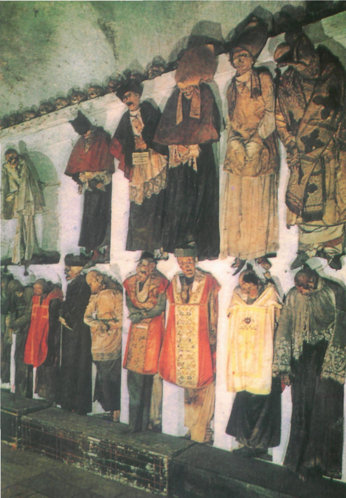 Priests' corridor in Capuchins' Catacombs